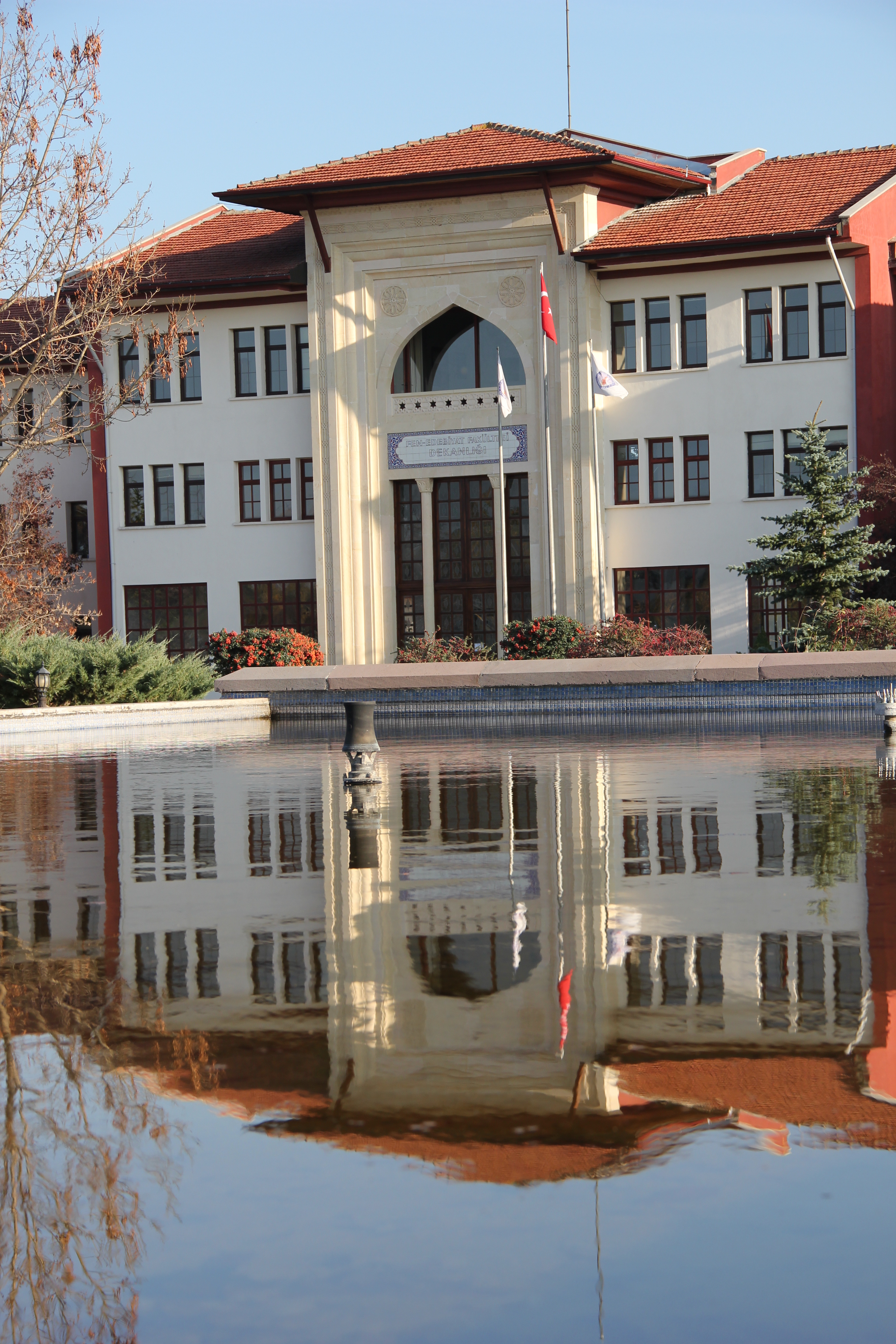 Kütahya Dumlupınar University, Deanship of Faculty of Arts and Sciences